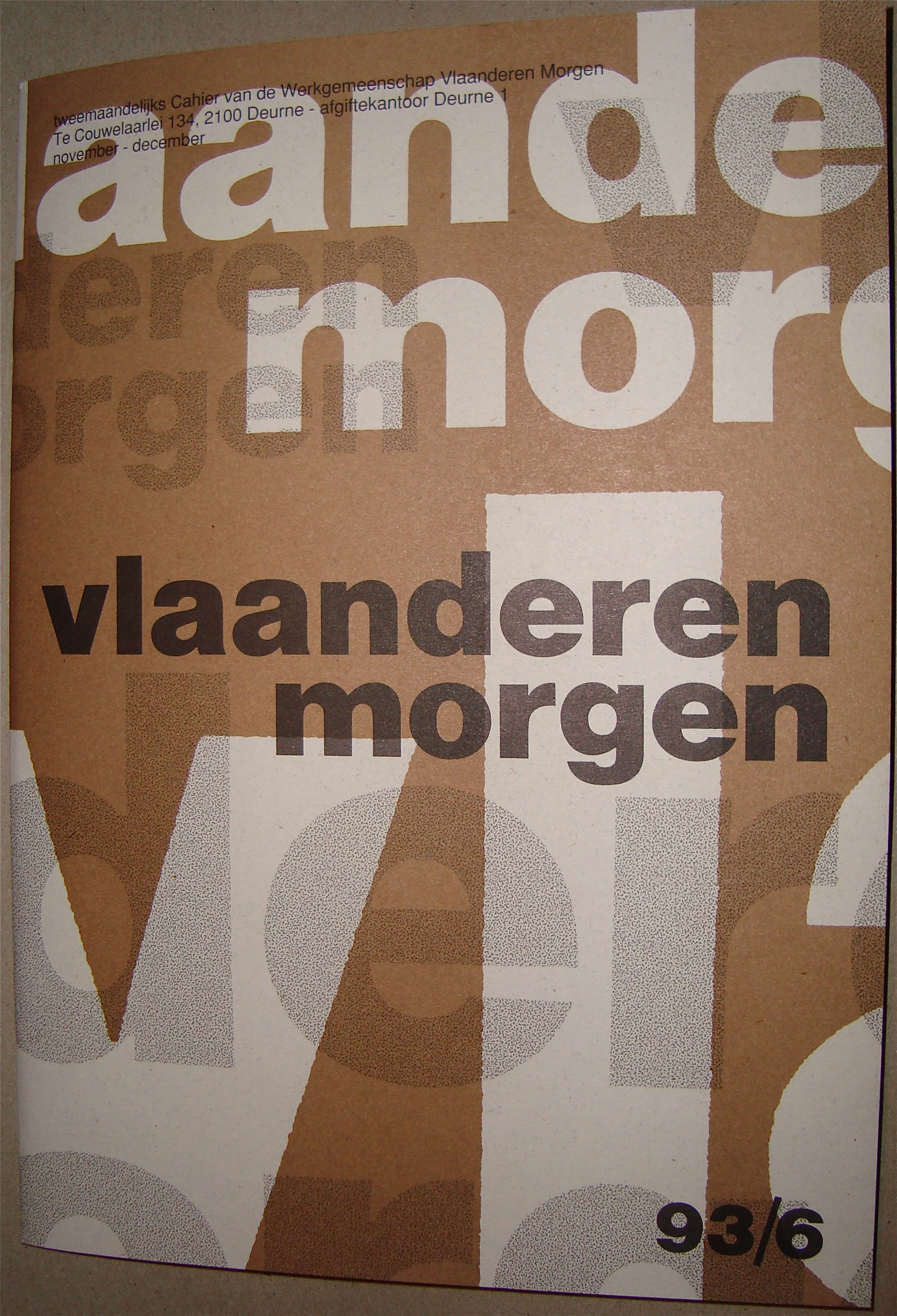 Picture cover magazine 'Vlaanderen Morgen'